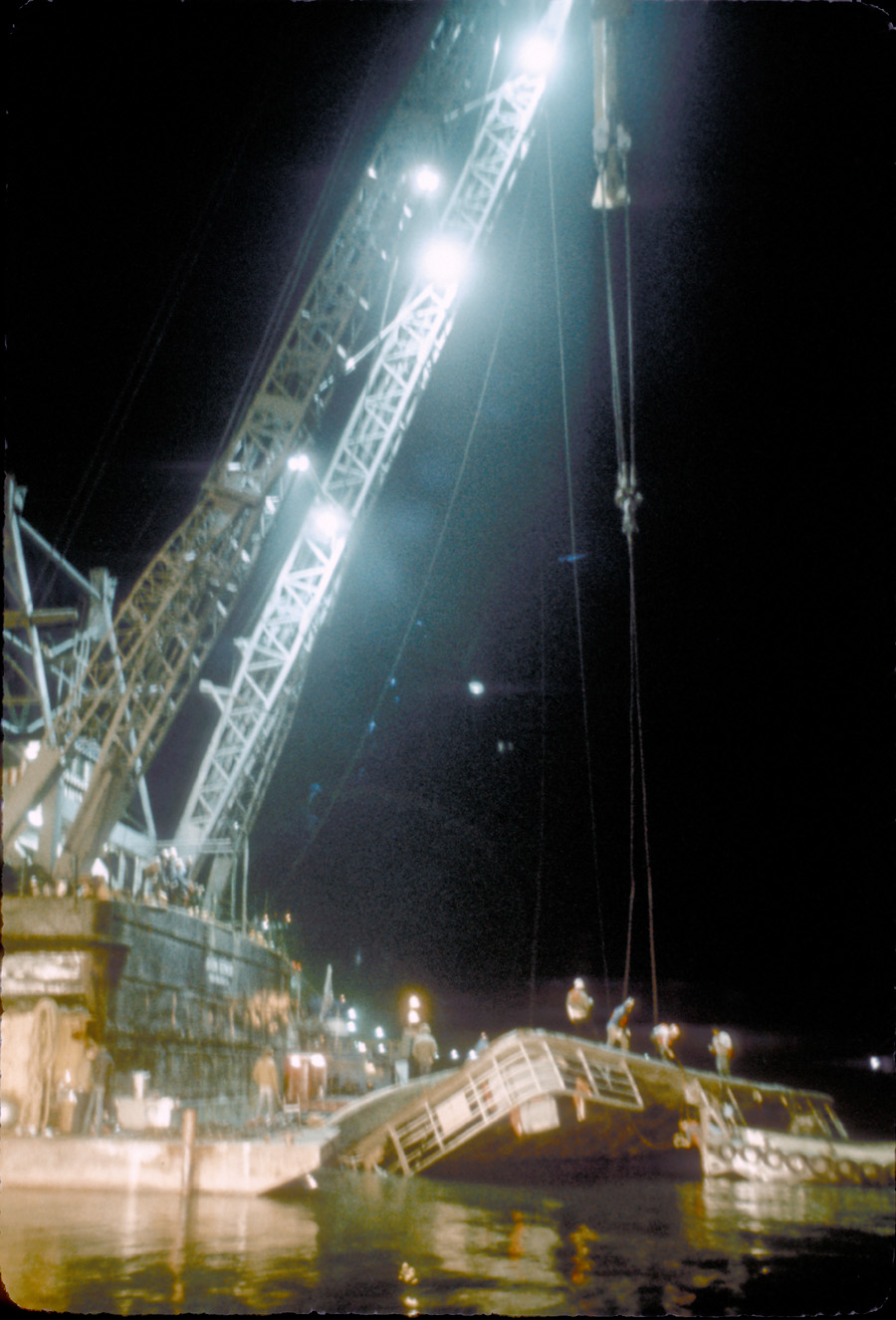 The MV George Prince about 20 hours after the accident at the Luling Ferry landing. See MV George Prince ferry disaster for more details.